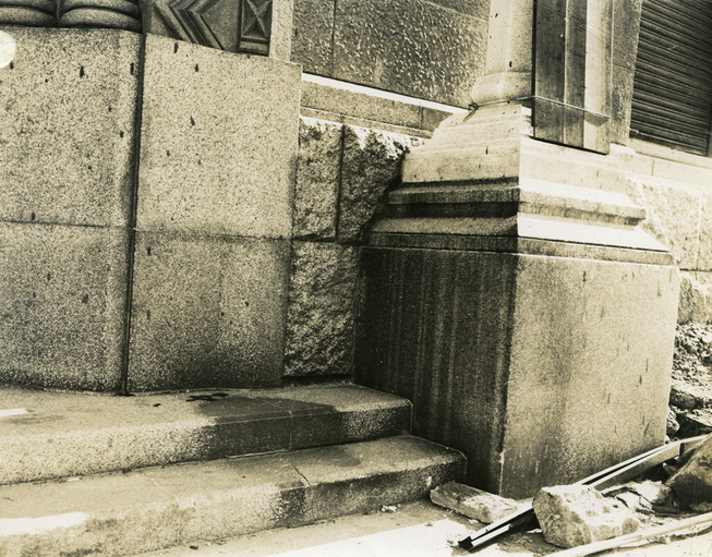 Flash burns on steps of Sumitomo Bank Company, Hiroshima branch